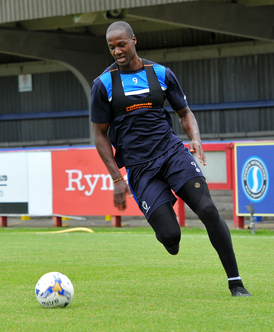 AFC Wimbledon players train during the club's open day at The Cherry Red Records Stadium, 4 August 2015